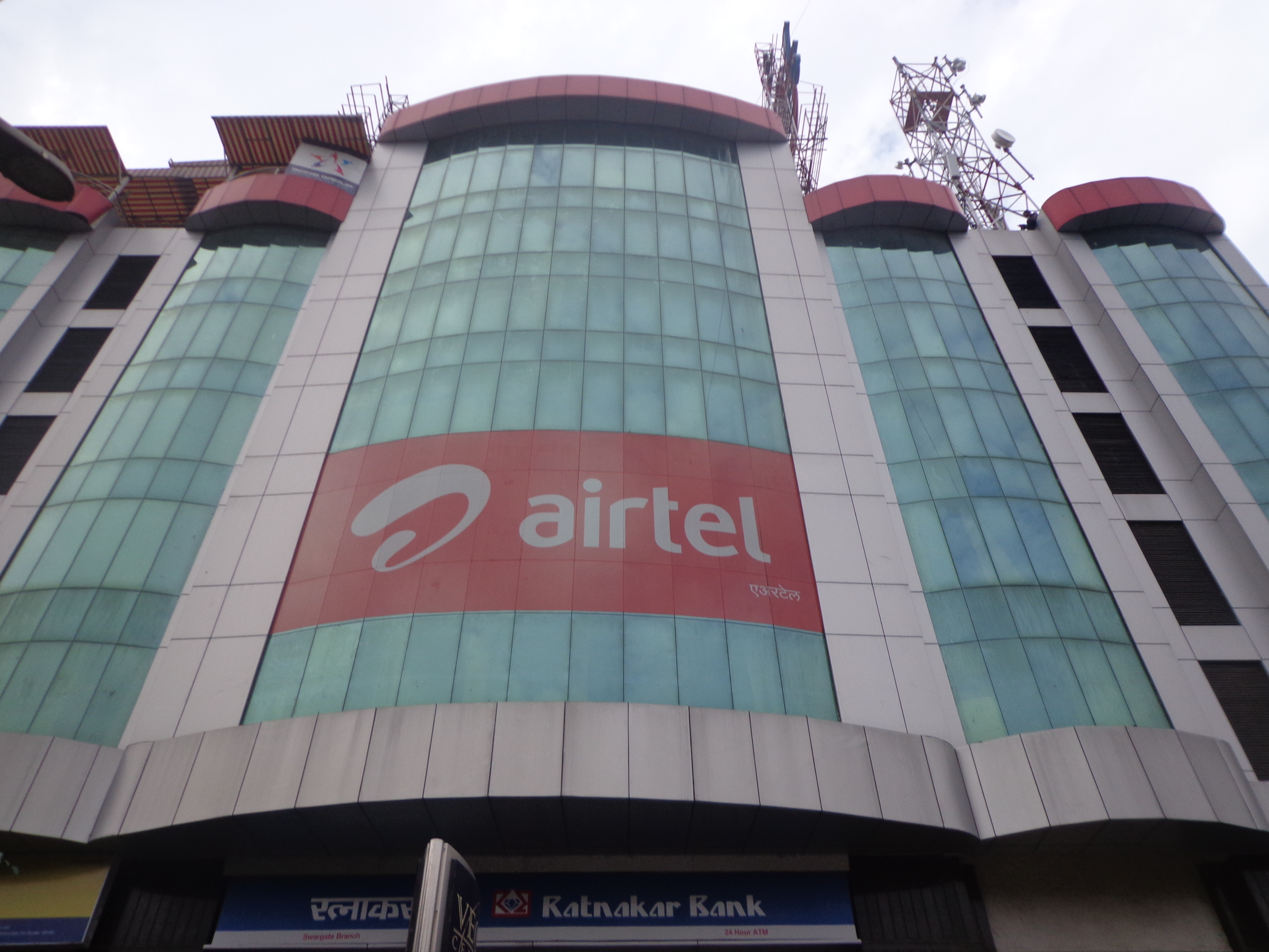 Vega Centre, Ghorpadipeth